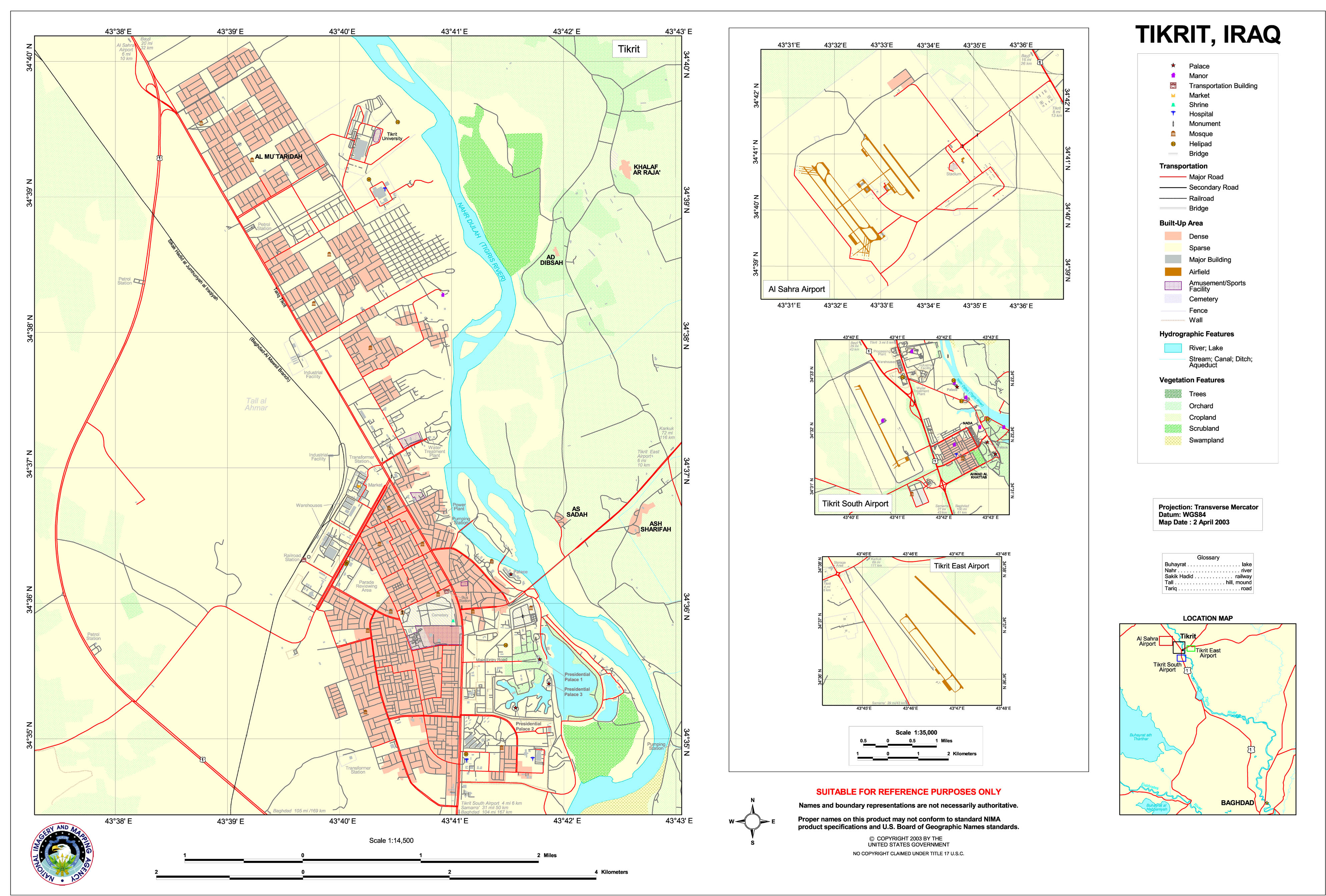 Map of Tikrit, Iraq. [1].